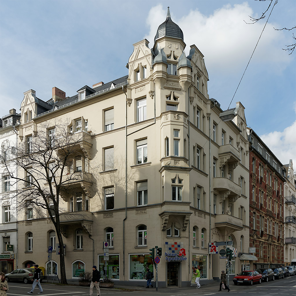 Historicism building: Bismarckring 24, corner Blücherstraße in Wiesbaden-Westend (Bismarc8763-Dvq)